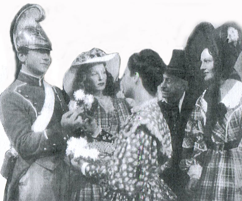 Gino Cervi ed altri in una foto di scena de "Una romantica avventura " ( Camerini 1940)